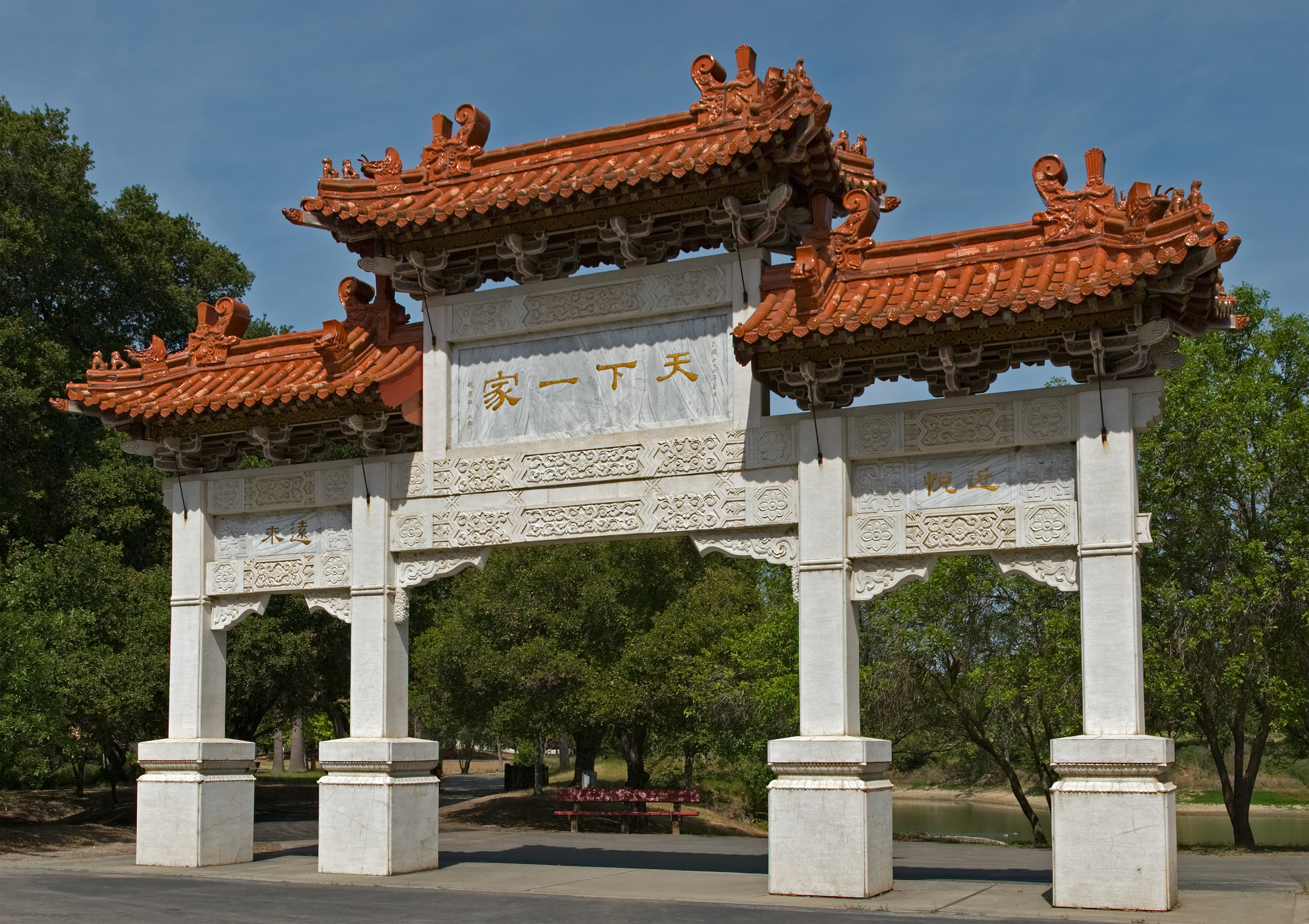 View of the gate to the Chinese Cultural Garden, in Overfelt Gardens Park, San Jose, California.